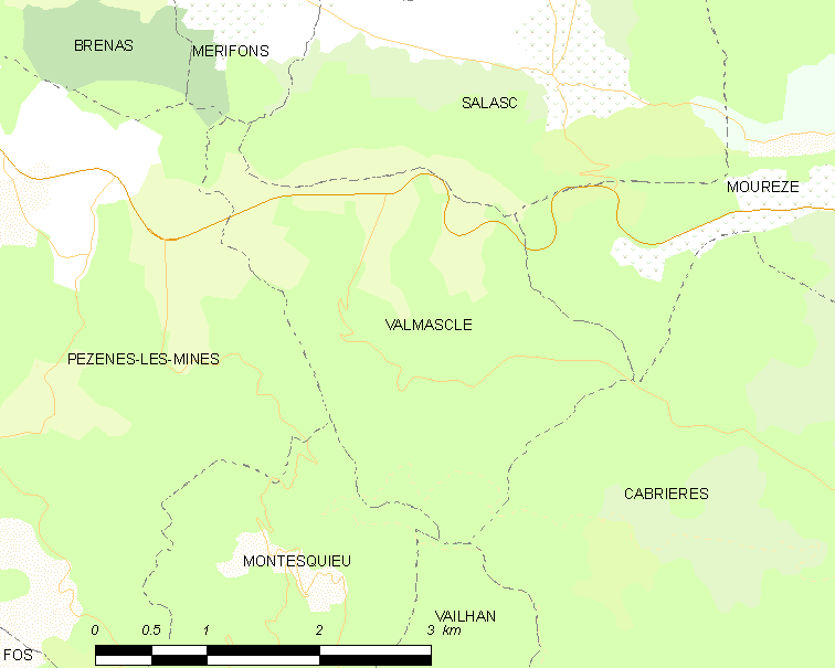 Map commune FR insee code 34323.png - Valmascle